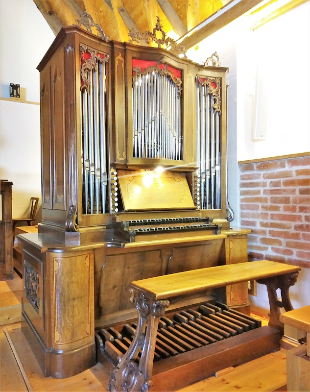 Orgelzentrum Valley